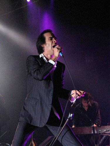 nick cave & the bad seeds, saschall, firenze, italy, 30/11/2004